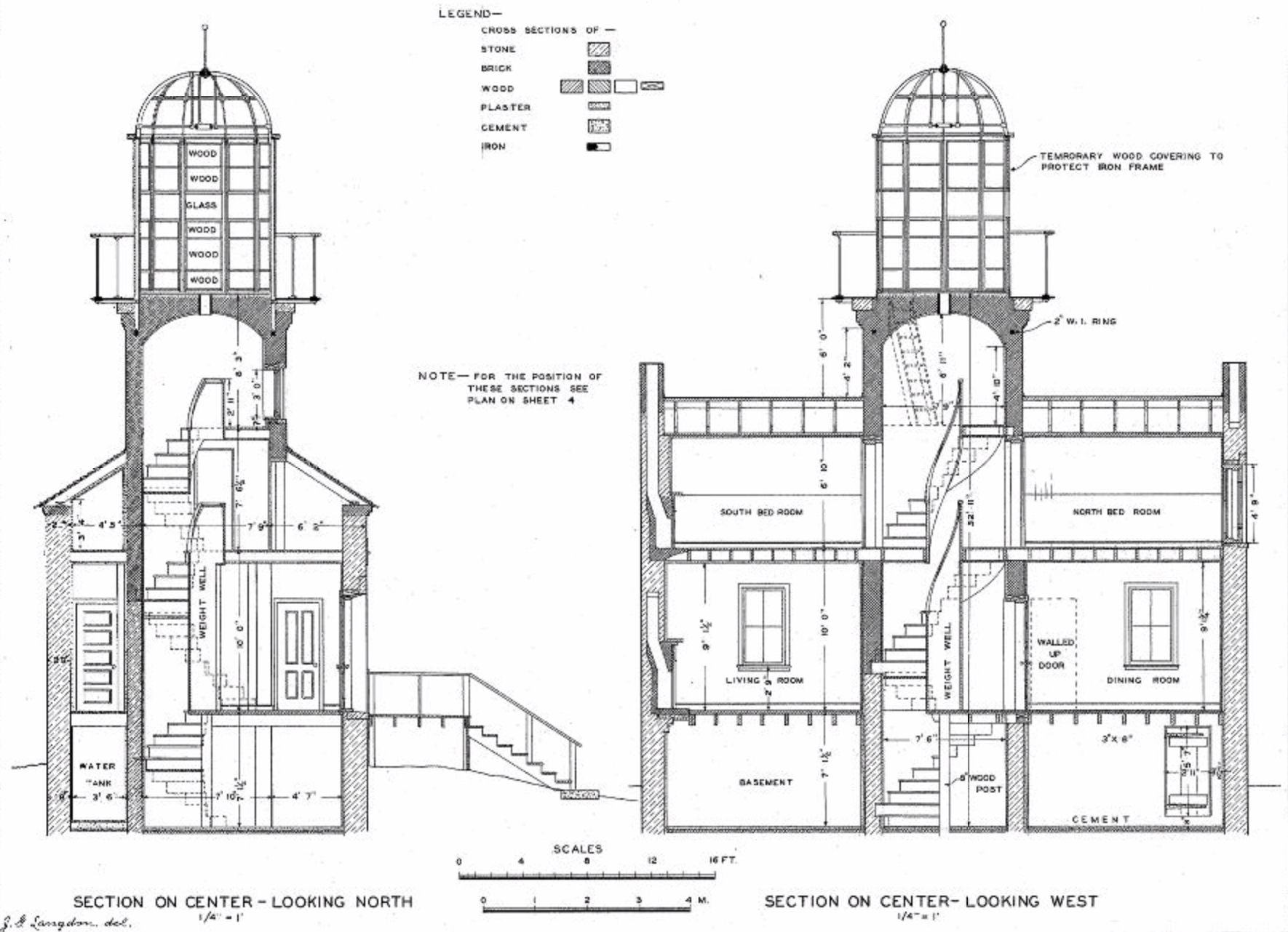 Old Point Loma, Section on Center – North and West